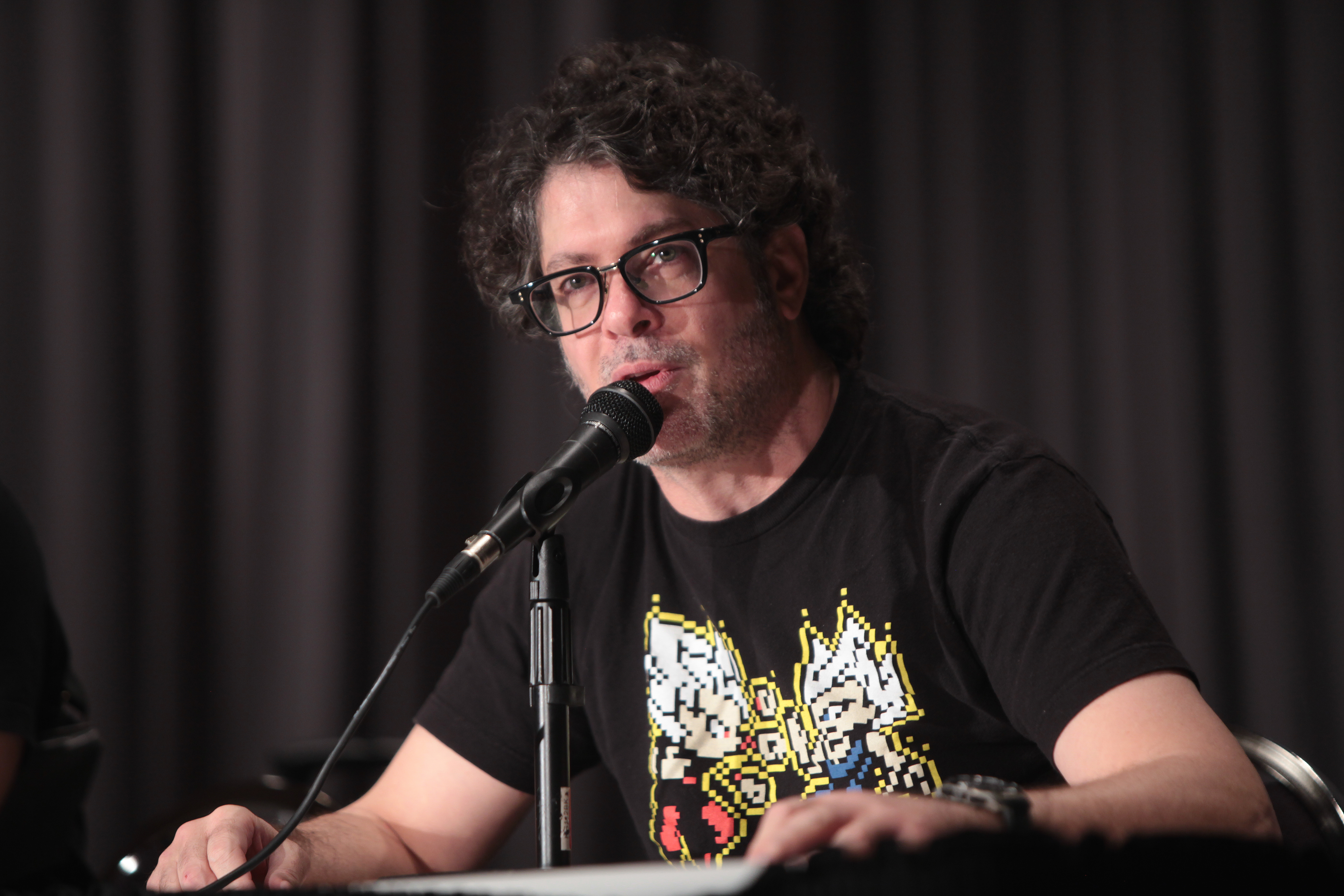 Sean Schemmel speaking with attendees at the 2016 Taiyou Con at the Mesa Convention Center in Mesa, Arizona.